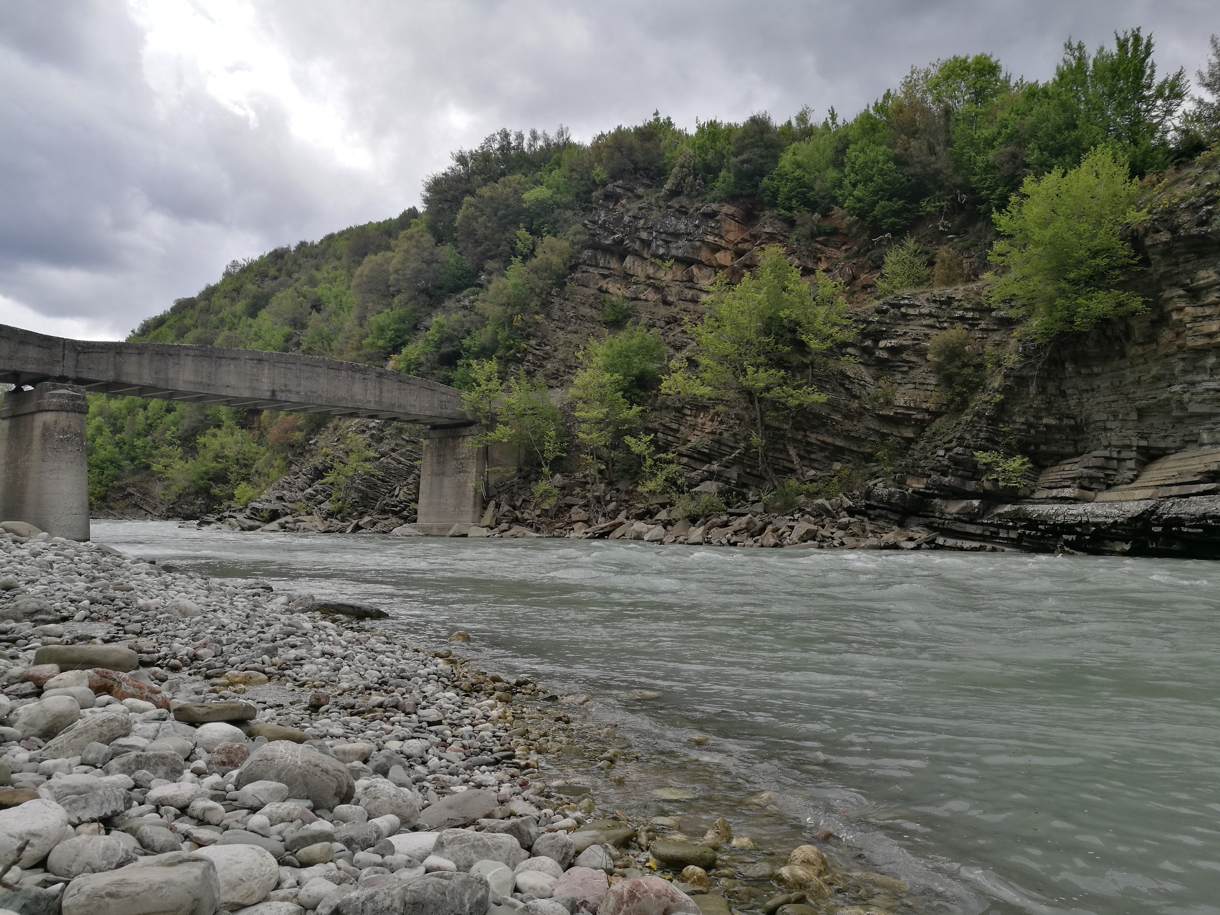 This is a photography of Natura 2000 protected area with ID GR1440001